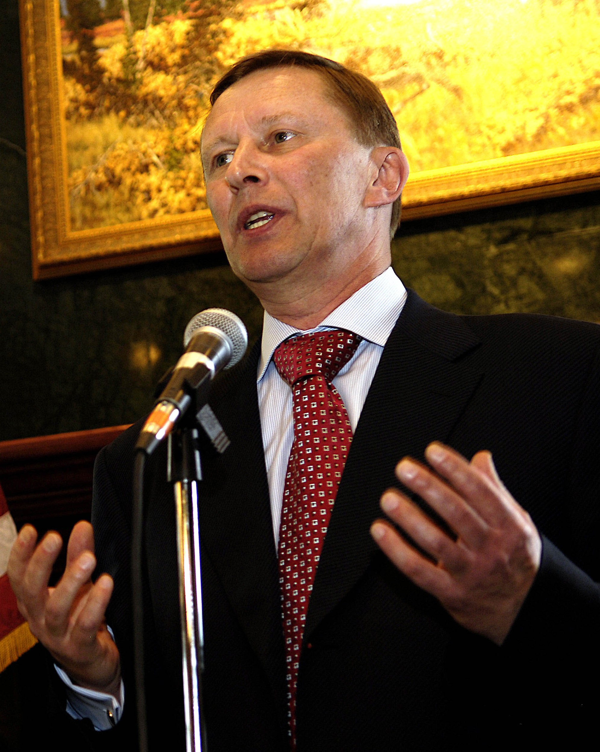 Russian Minister of Defense Sergei Ivanov answers a question during a joint press conference with Secretary of Defense Donald Rumsfeld in Fairbanks, Alaska. Rumsfeld, Ivanov and their senior advisors met earlier to discuss regional security issues. Rumsfeld and Ivanov will later take part in a dedication ceremony of a memorial to U.S.-Soviet military cooperation during World War II.